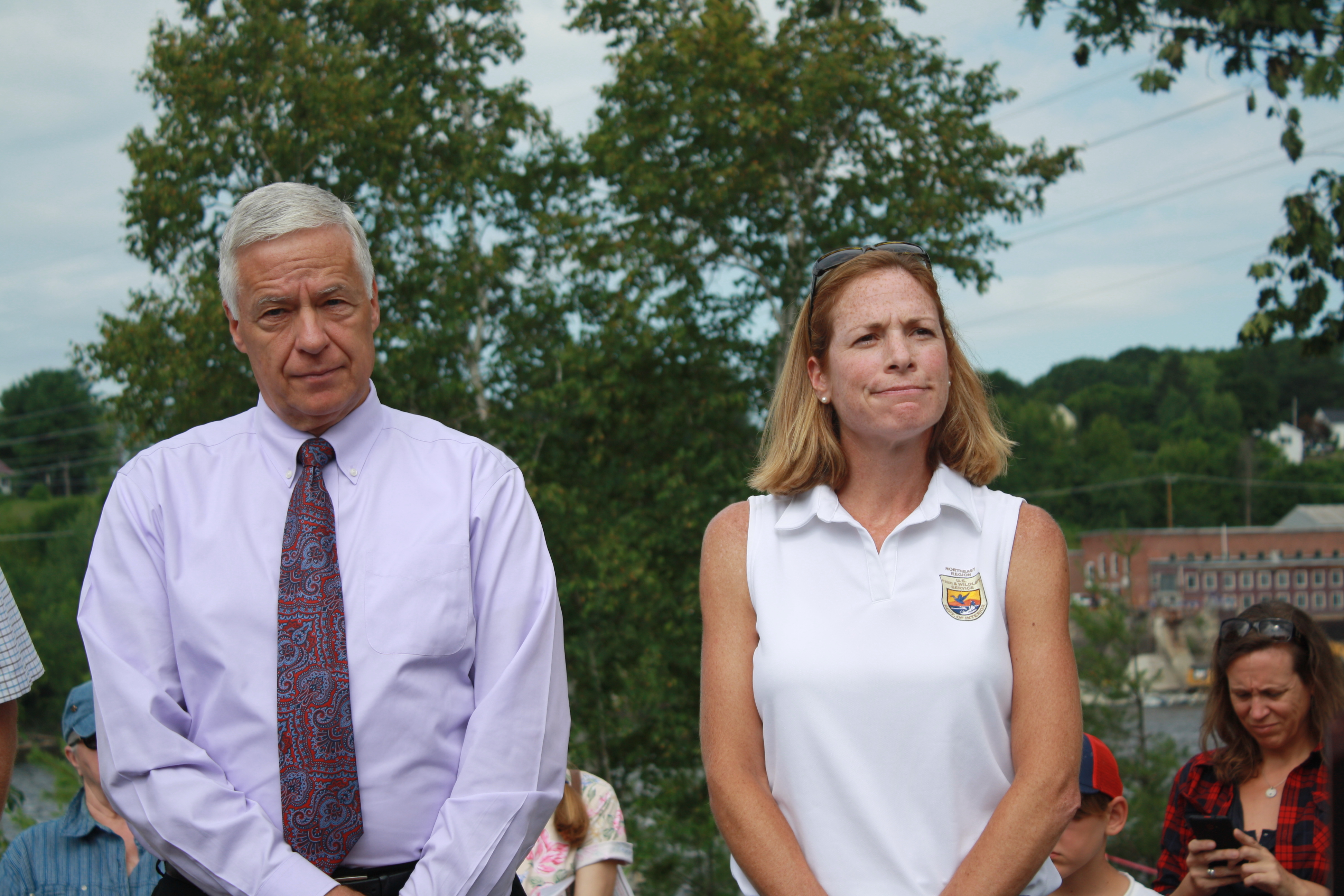 U.S. Congressman Mike Michaud and U.S. Fish and Wildlife Service Northeast Regional Director Wendi Weber.